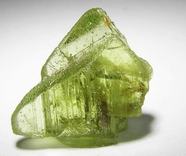 Forsterite (Var.: Olivine) Locality: St John's Island (Zagbargad; Zabargad; Zebirget; Seberged; Topazios), Red Sea, Egypt (Locality at ) Size: 1.3 x 0.7 x 0.4 cm. A gem peridot crystal from the classic locale for gem forsterite - St. Johns Island in the Red Sea off Egypt. This ancient locality was mined for peridot or "night emerald" as it was called, in the time of the Egyptian pharaohs. This is a locale now long gone and to my knowledge not collected from after the early 1900s at latest. In fact, the site is now under the Red Sea. This is a superb, historic gem crystal and a fine thumbnail as well.